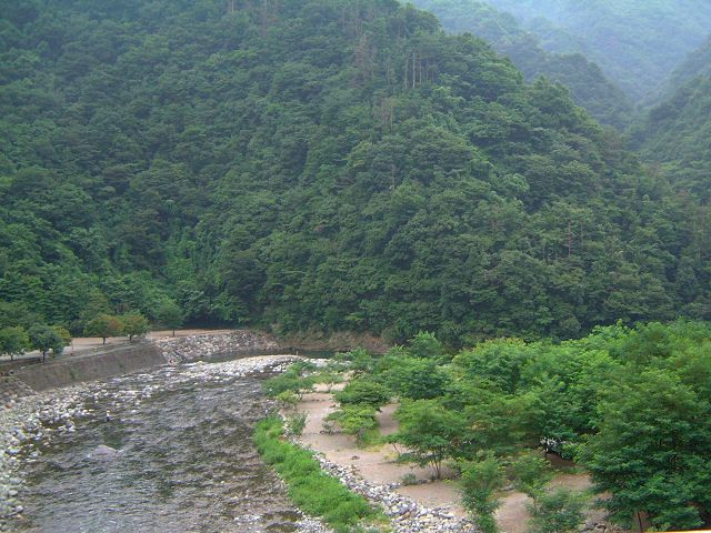 Doshi River from Ryogoku Bridge, Onguwa Aone Tsukui Tsukui Sagamihara Kanagawa, Japan.